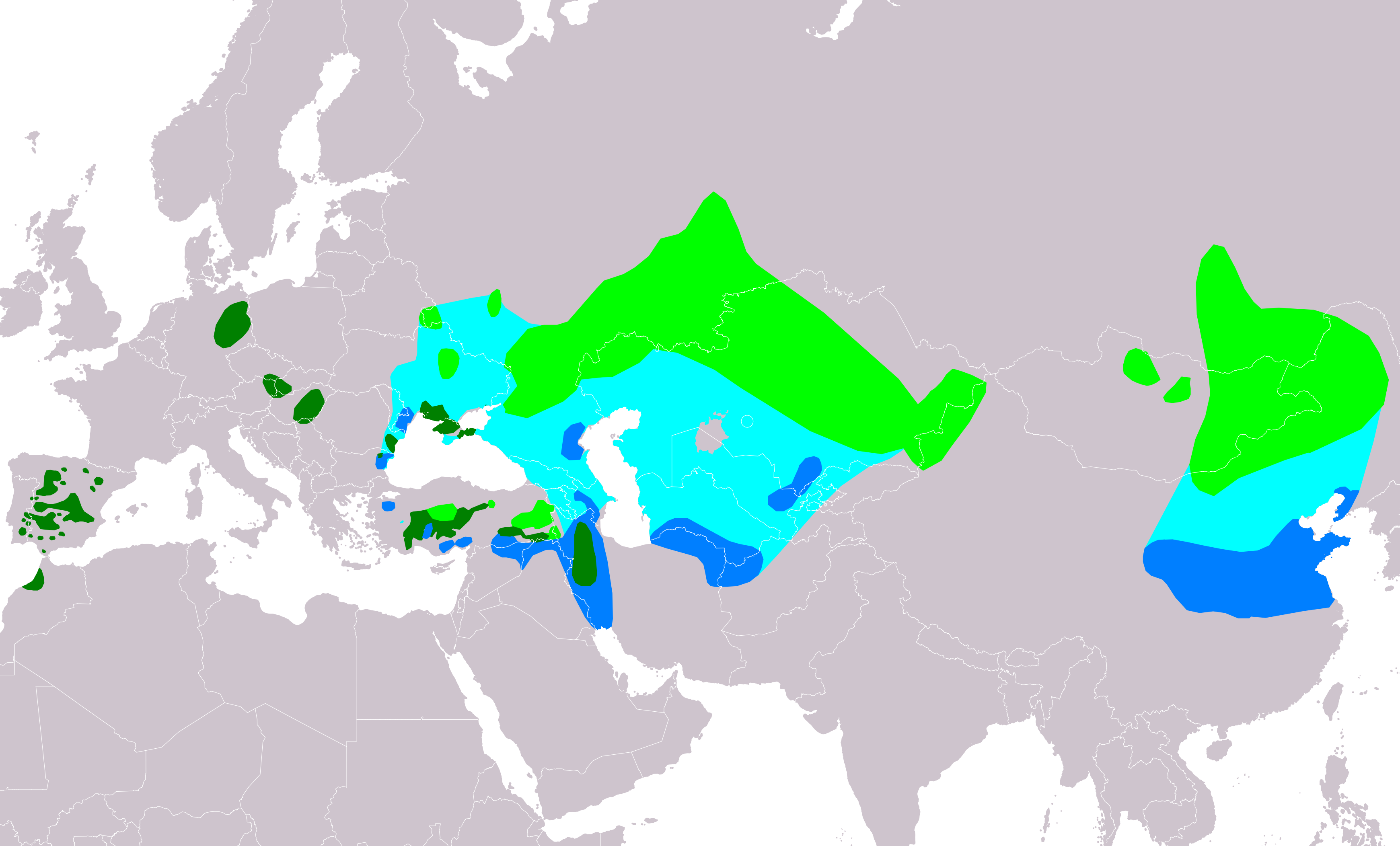 Disribution map of great bustard (Otis tarda) according to IUCN version 2019-2 ; key: Legend: Extant, breeding (#00FF00), Extant, resident (#008000), Extant, passage (#00FFFF), Extant, non-breeding (#007FFF)